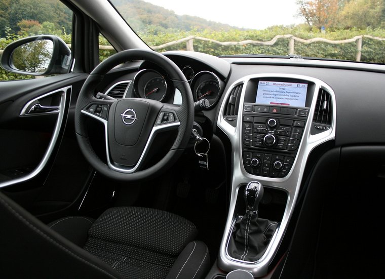 Opel Astra IV